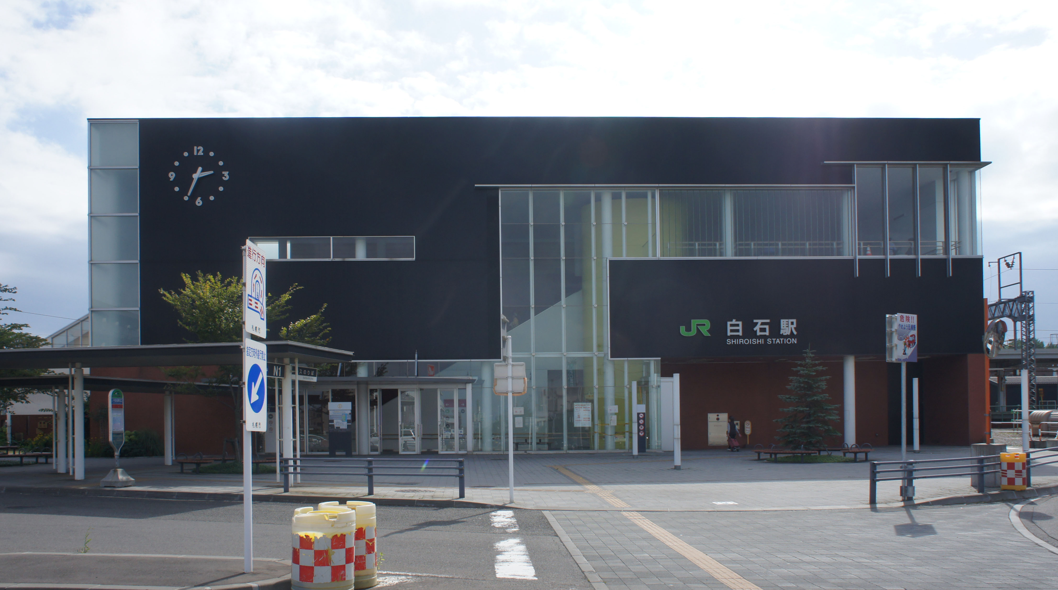 Station building (South Exit) of JR Hakodate-Main-Line/Chitose-Line Shiroishi Station